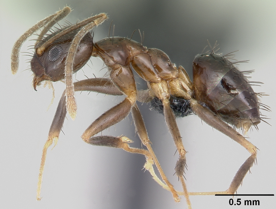 Profile view of ant Paratrechina vividula specimen casent0059600.